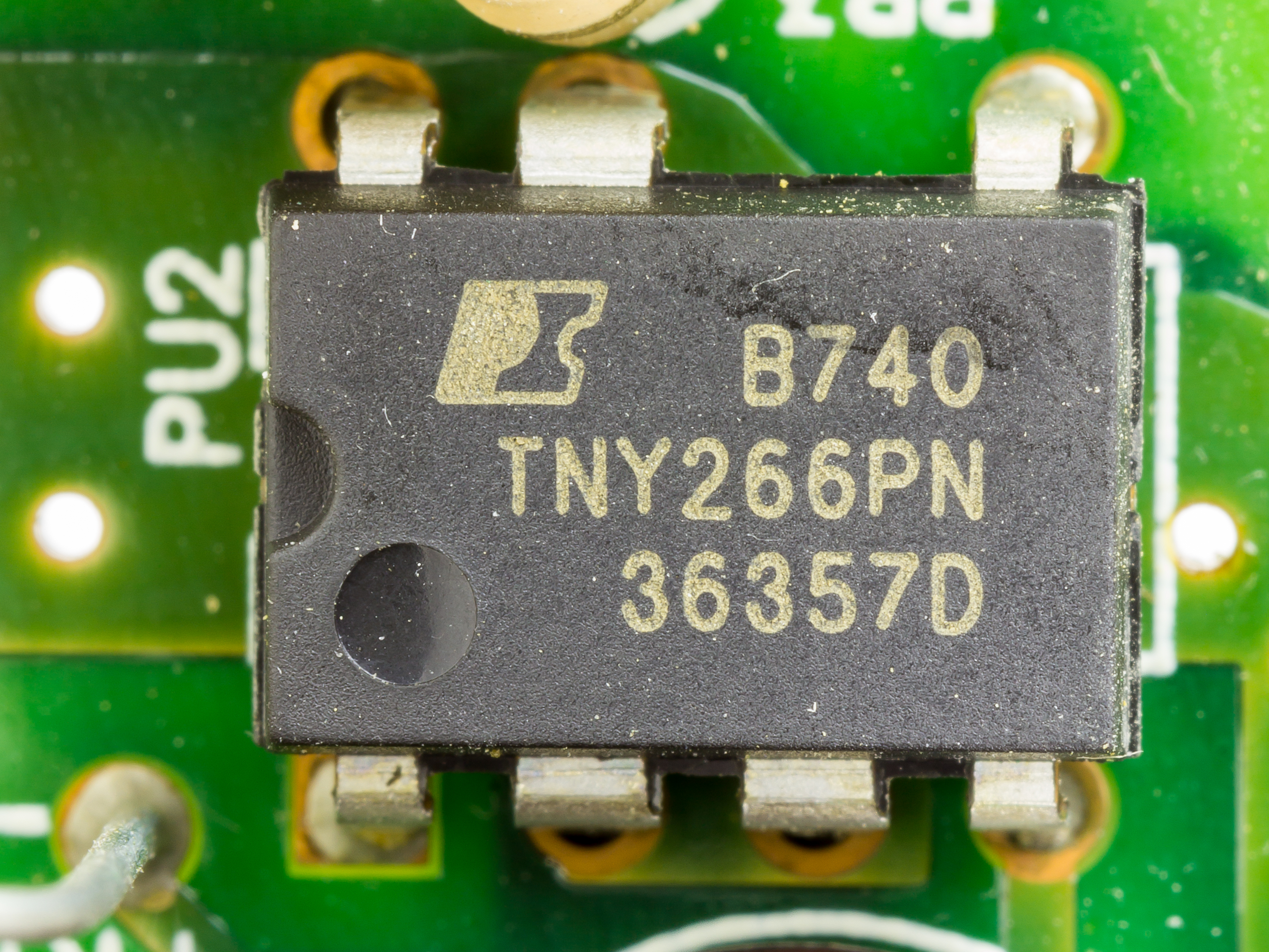 KraftCom PowerLine Turbo Adapter PN-KE85 - Power Integrations TNY266PN (Low Power Off-line Switcher, TinySwitch-II Family) Package: DIP-8B